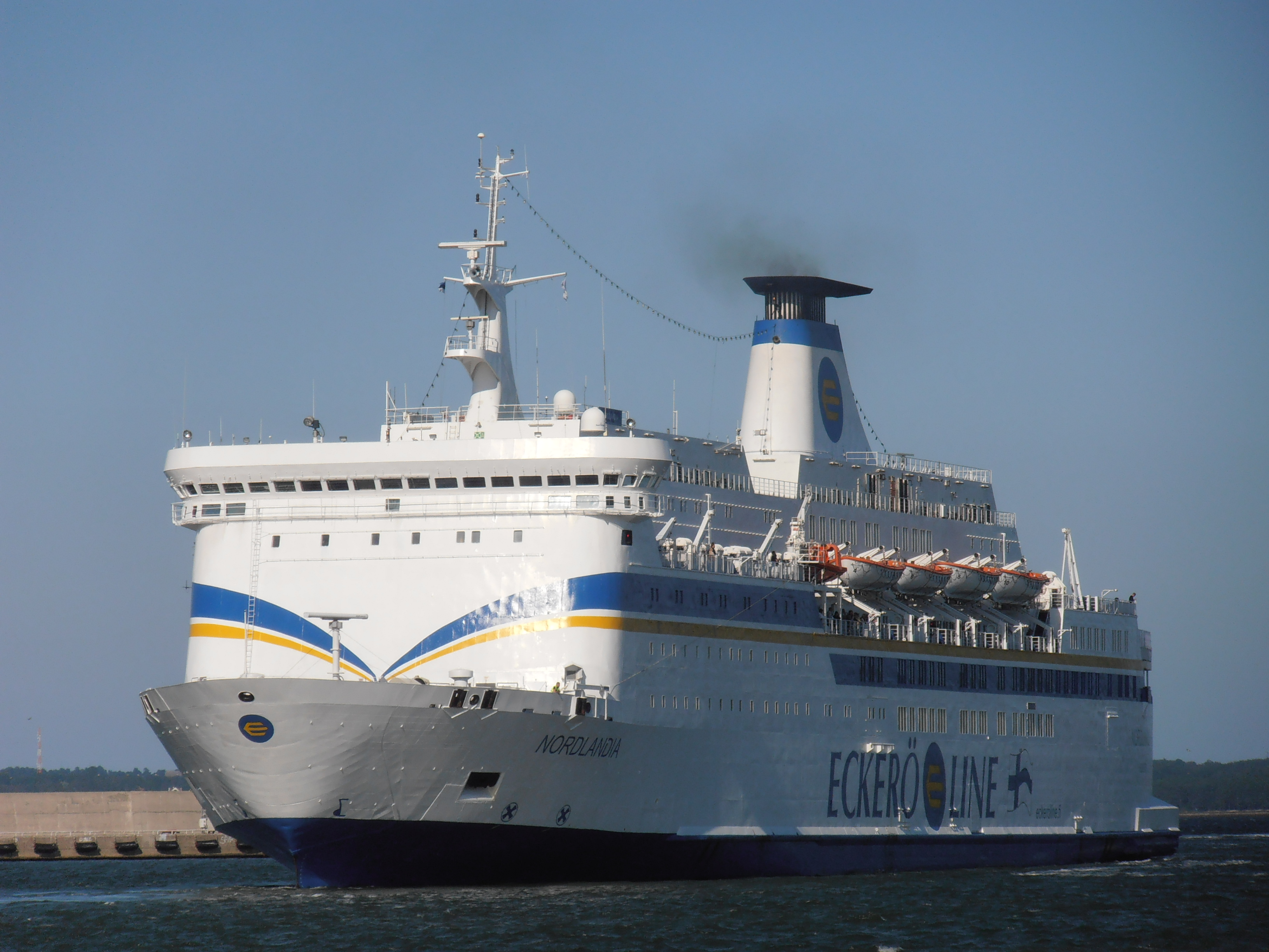 Nordlandia arriving Tallinn 13 August 2012